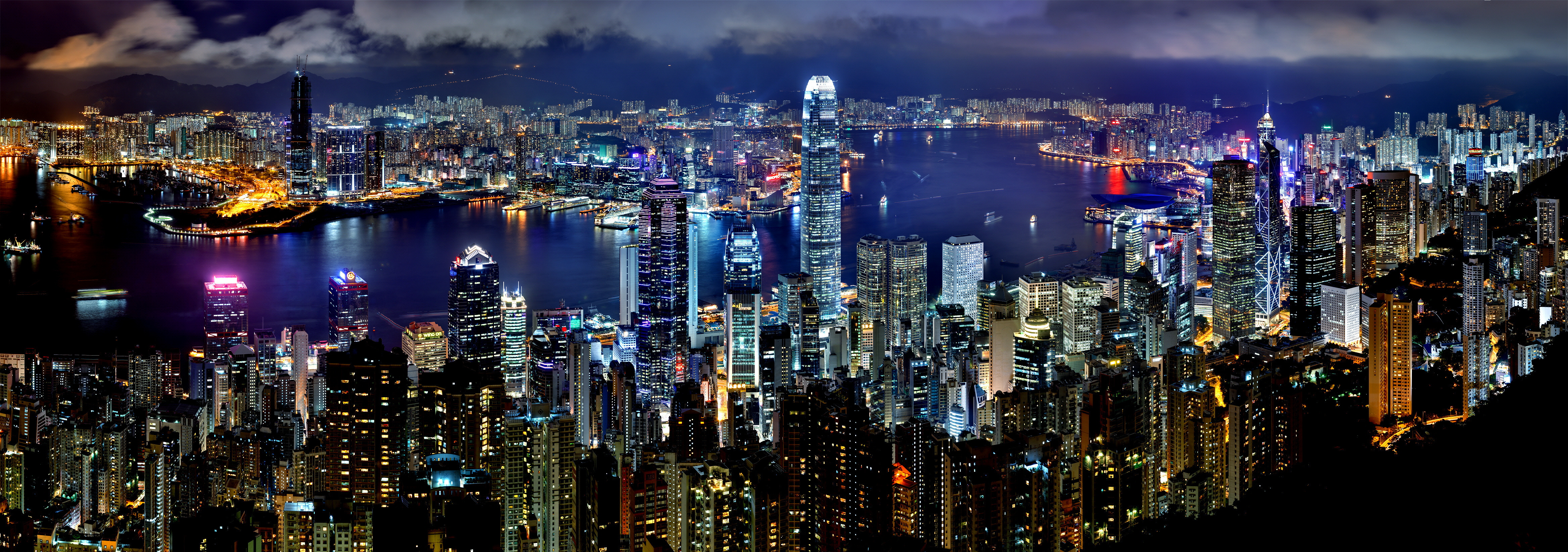 Skyline of Victoria Habour